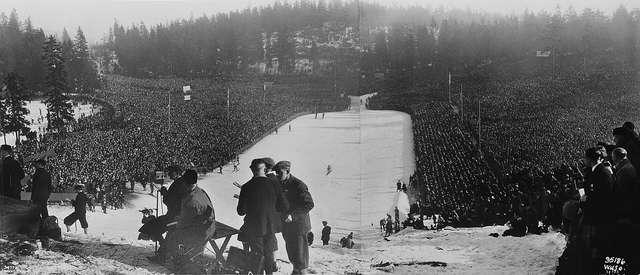 Holmenkollbakken in Oslo, Norway, during FIS Nordic World Ski Championships 1930